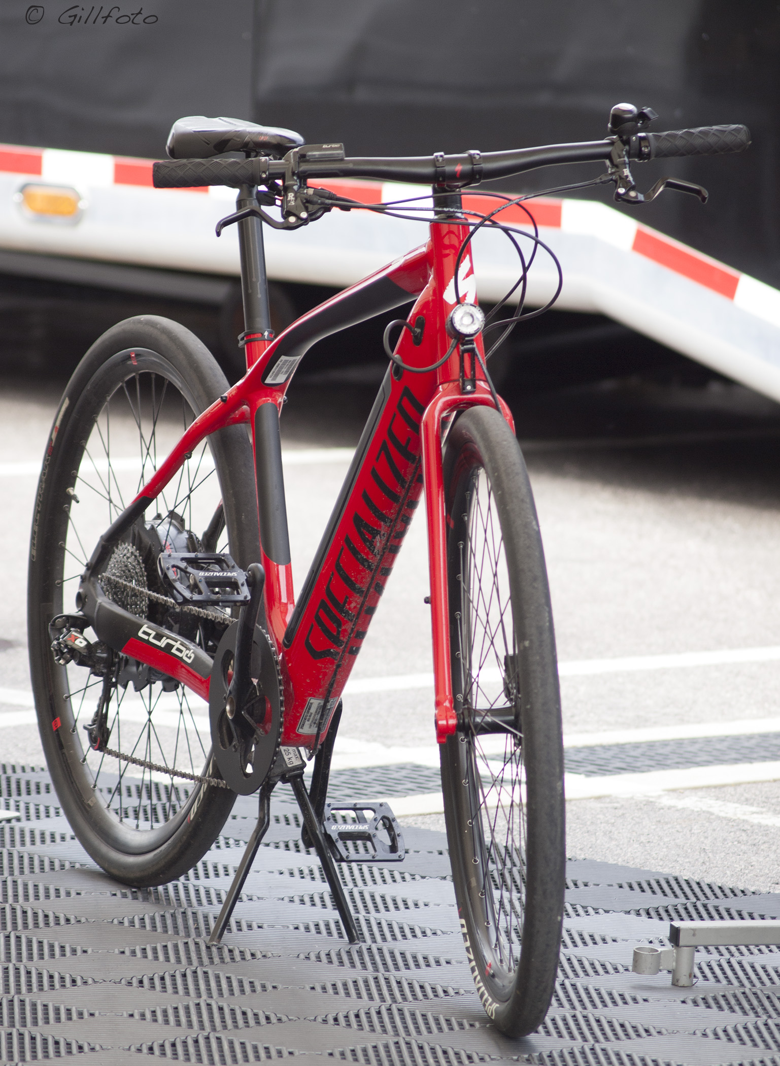 Specialized Turbo (2013) - electric assist racing bicycle at COTA, Texas, 2014